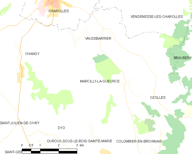 Map of French municipality